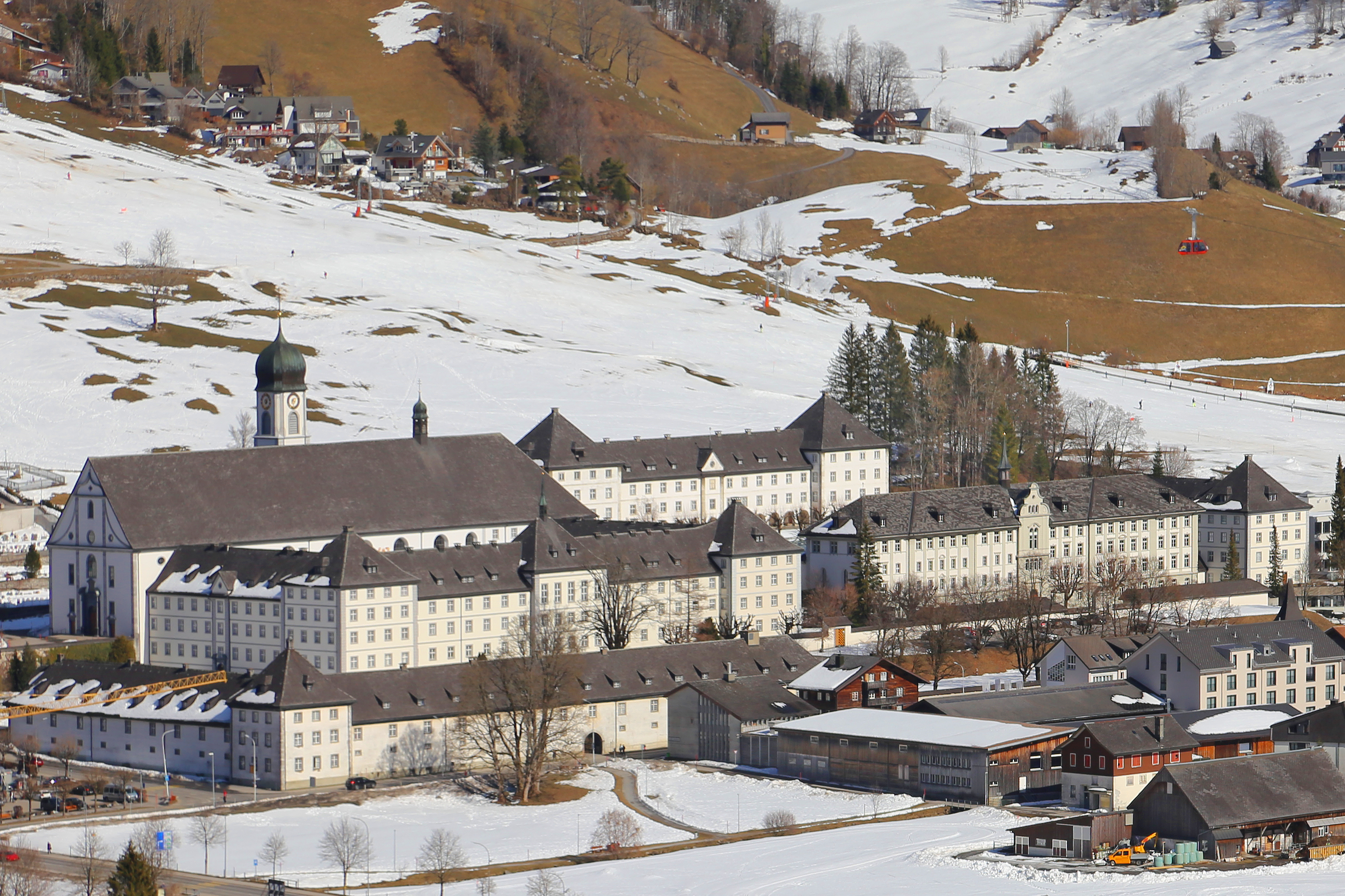 View of the building complex of the Engelberg Abbey - one of the largest baroque sites in Switzerland, canton Obwalden.